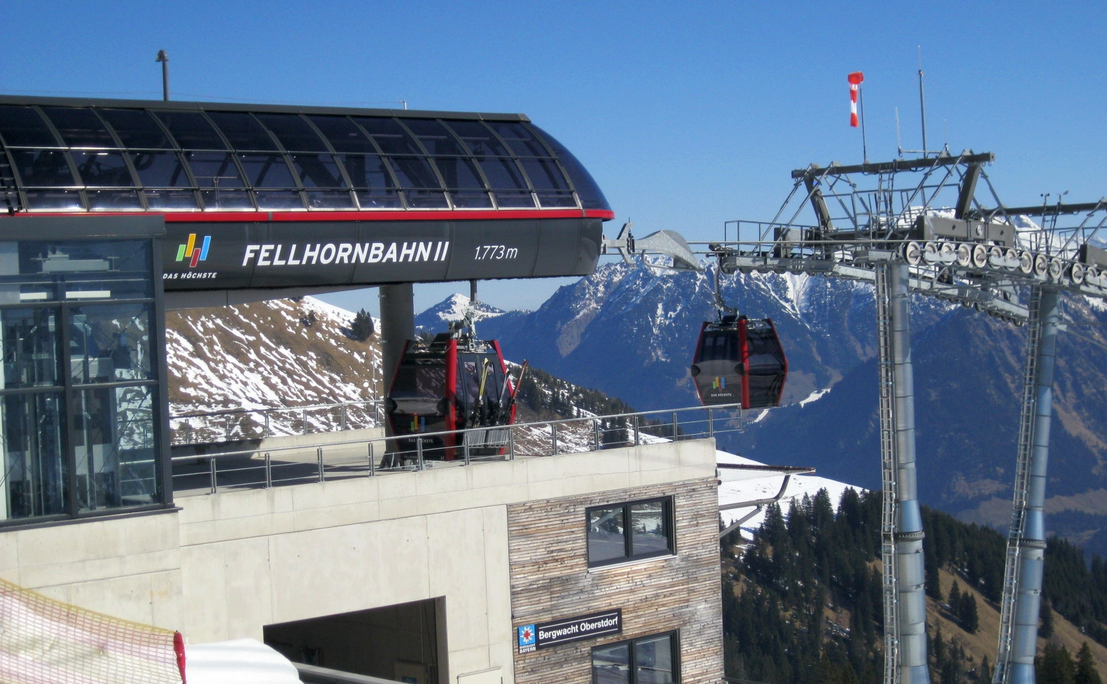 Ropeway in Bavaria at the Fellhorn.